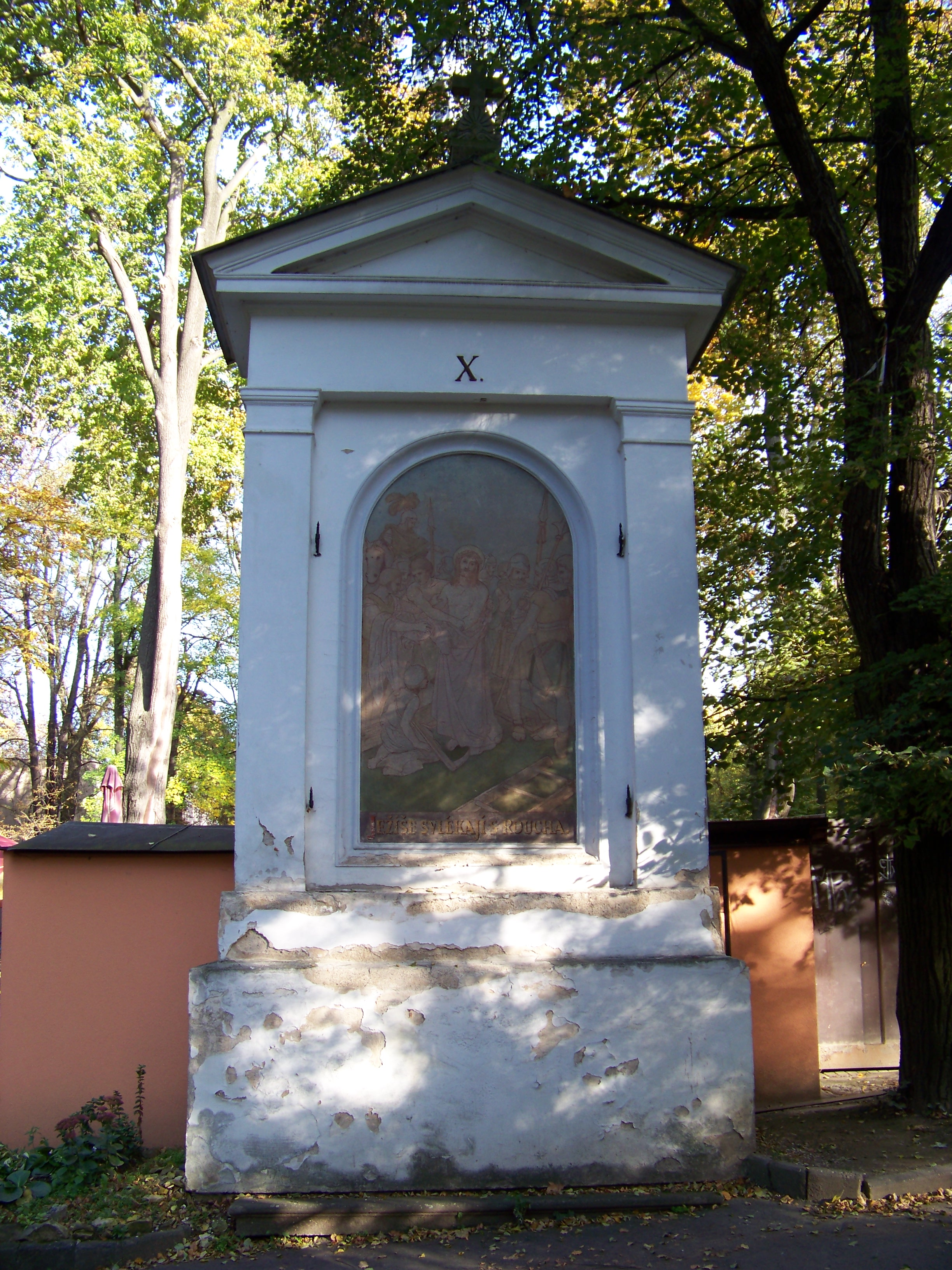 Prague-Malá Strana, the Czech Republic. Petřín hill, Petřín Park, Stations of the Cross station X.